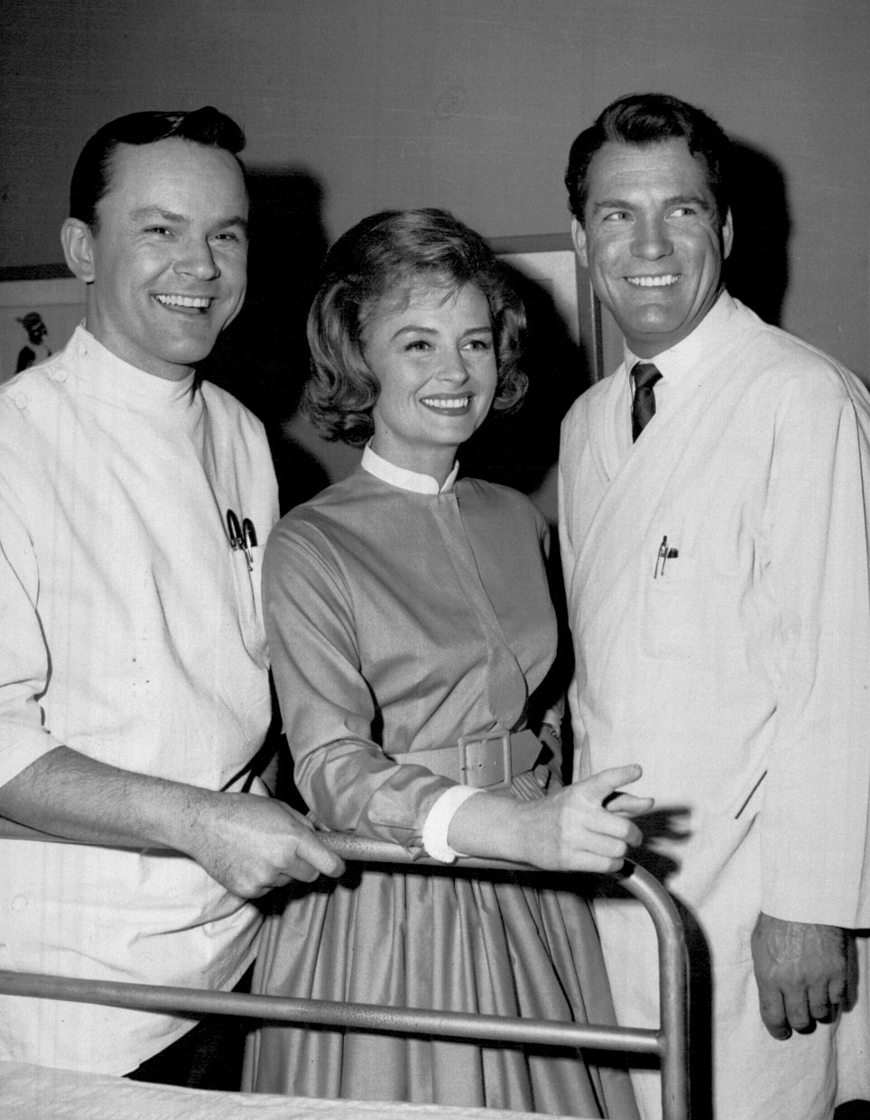 Photo of Bob Crane, Donna Reed and Carl Betz from the television series The Donna Reed Show. Crane joined the cast as Dr. Dave Kelsey in this 1963 episode, The Two Doctors Stone. The item has no copyright markings on it as can be seen in the links above.